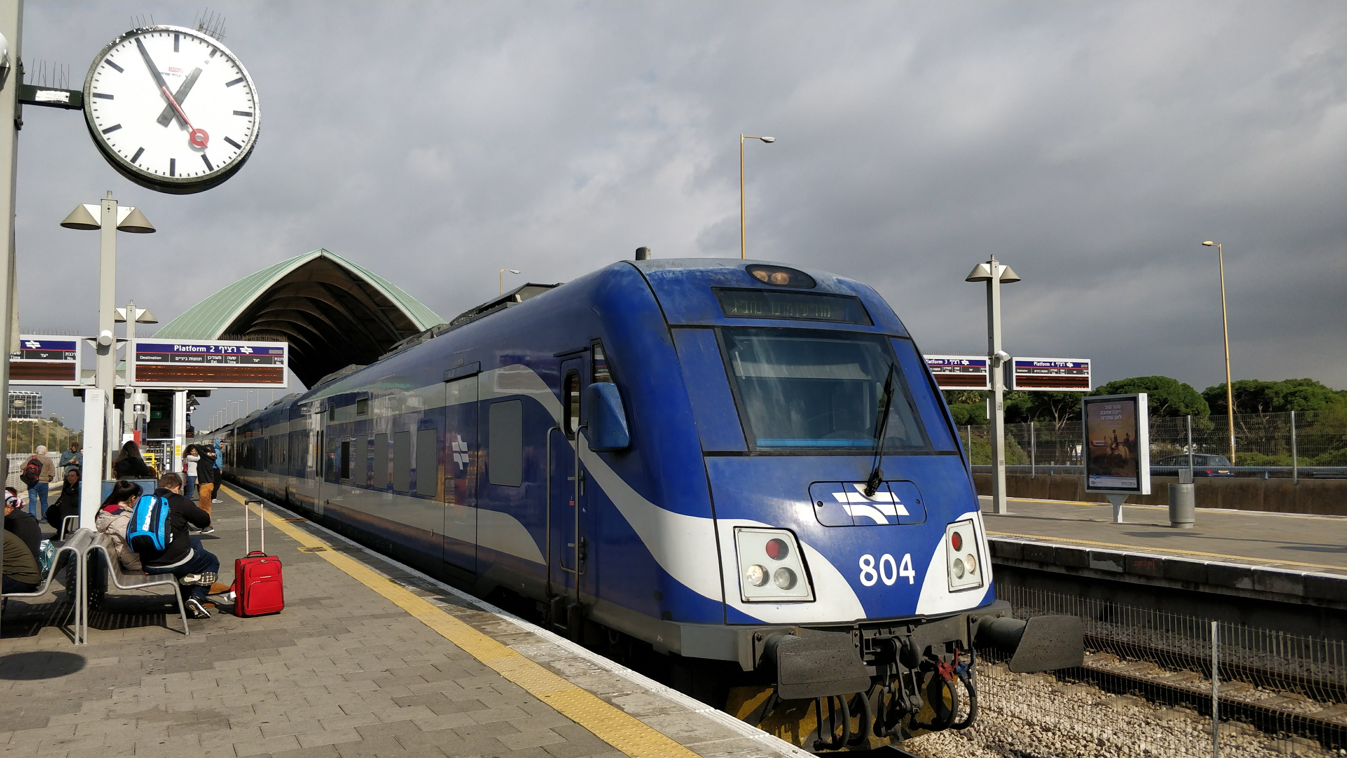 Train (Siemens Viaggio Light type) to Nahariya at Tel Aviv University train station, Tel Aviv, Israel